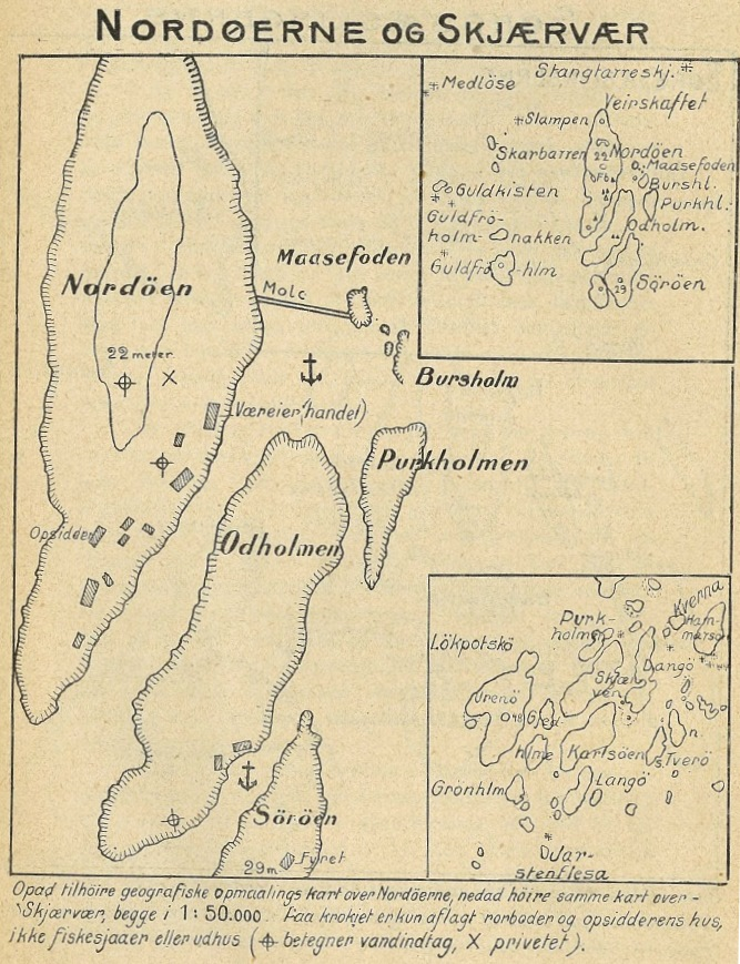 Map of island group Nordøyan in Vikna, Norway. Drawing by district physician Harald Natvig